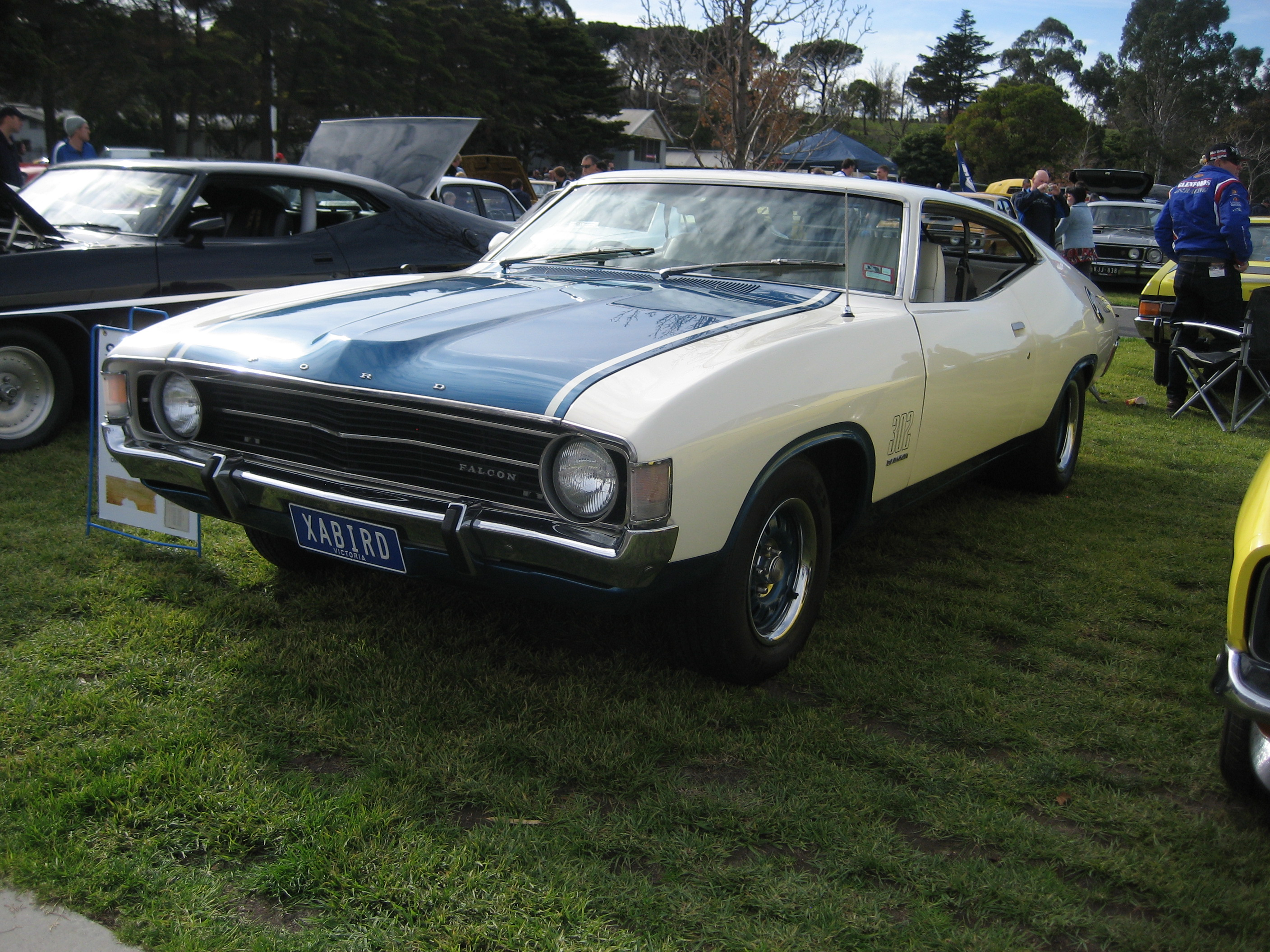 Ford XA Falcon 500 Superbird Hardtop - RPO 77. Pictured in Polar White/Comic Blue with correct colour-coded wheel centres. Built from March-May 1973. VIN: JG65NM80451K Option 77, Approximately 700 made Engine 302 Cleveland V8 Polar White / Cosmic Blue also Yellow Fire / Walnut Glow Lime Glaze / Jewel Green